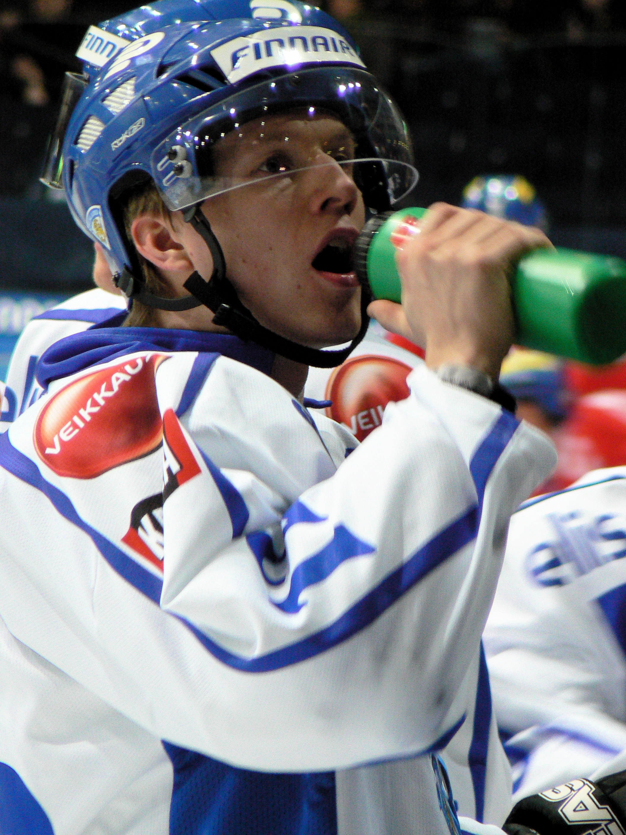 Finnish ice hockey forward Esa Pirnes playing for Team Finland in an LG Hockey Games / Euro Hockey Tour match against the Czech Republic in Tampere, Finland, February 2008.